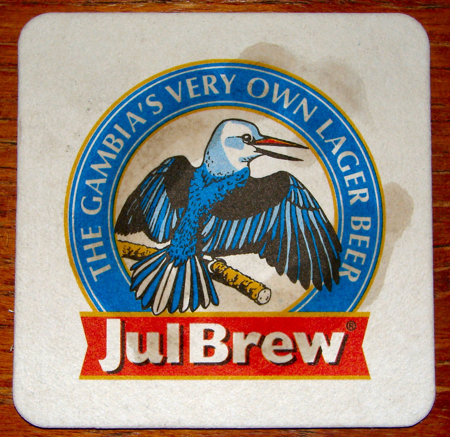 A coaster with the logo of JulBrew, a Gambian beer brand.